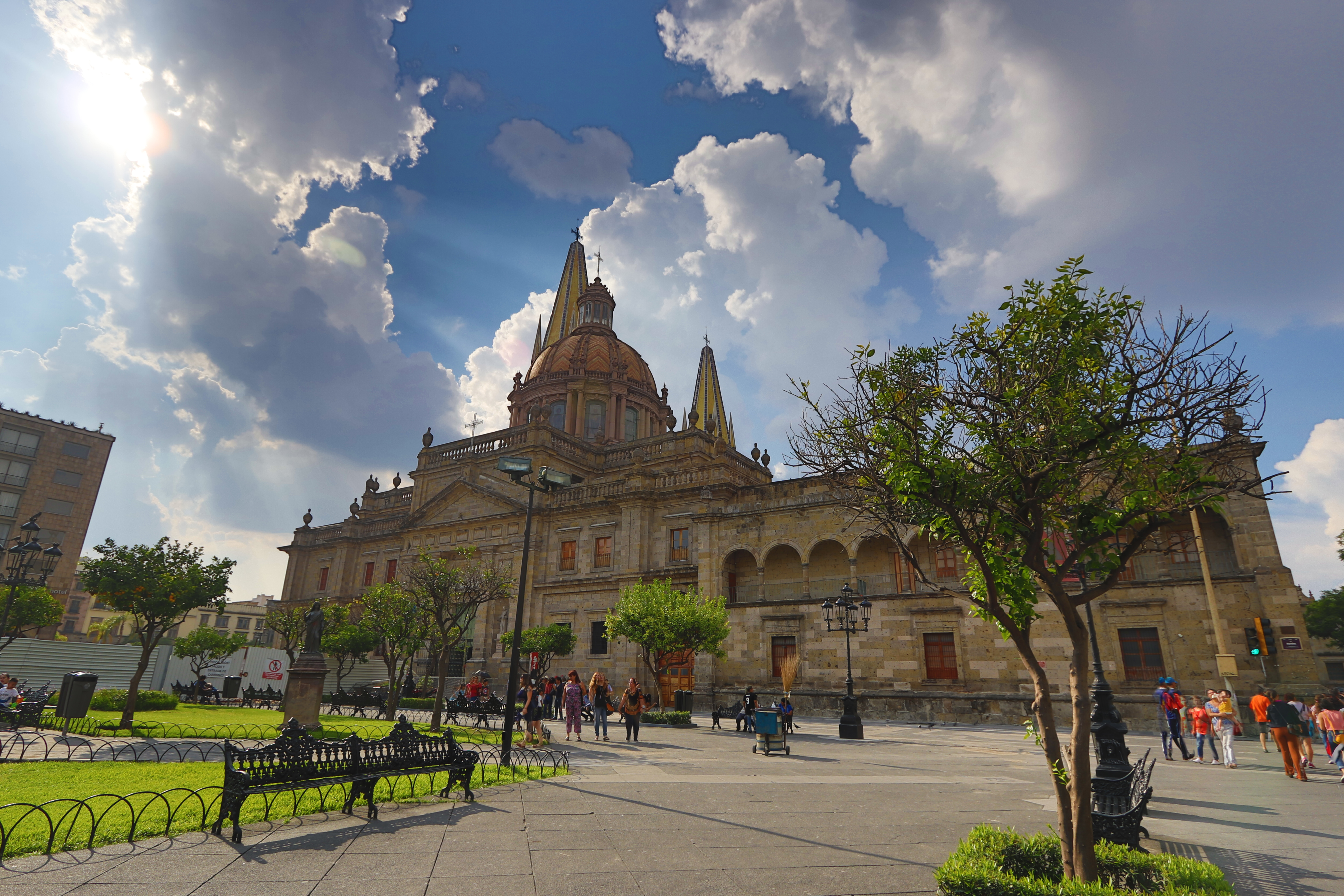 Guadalajara Cathedral, Jalisco, MX.